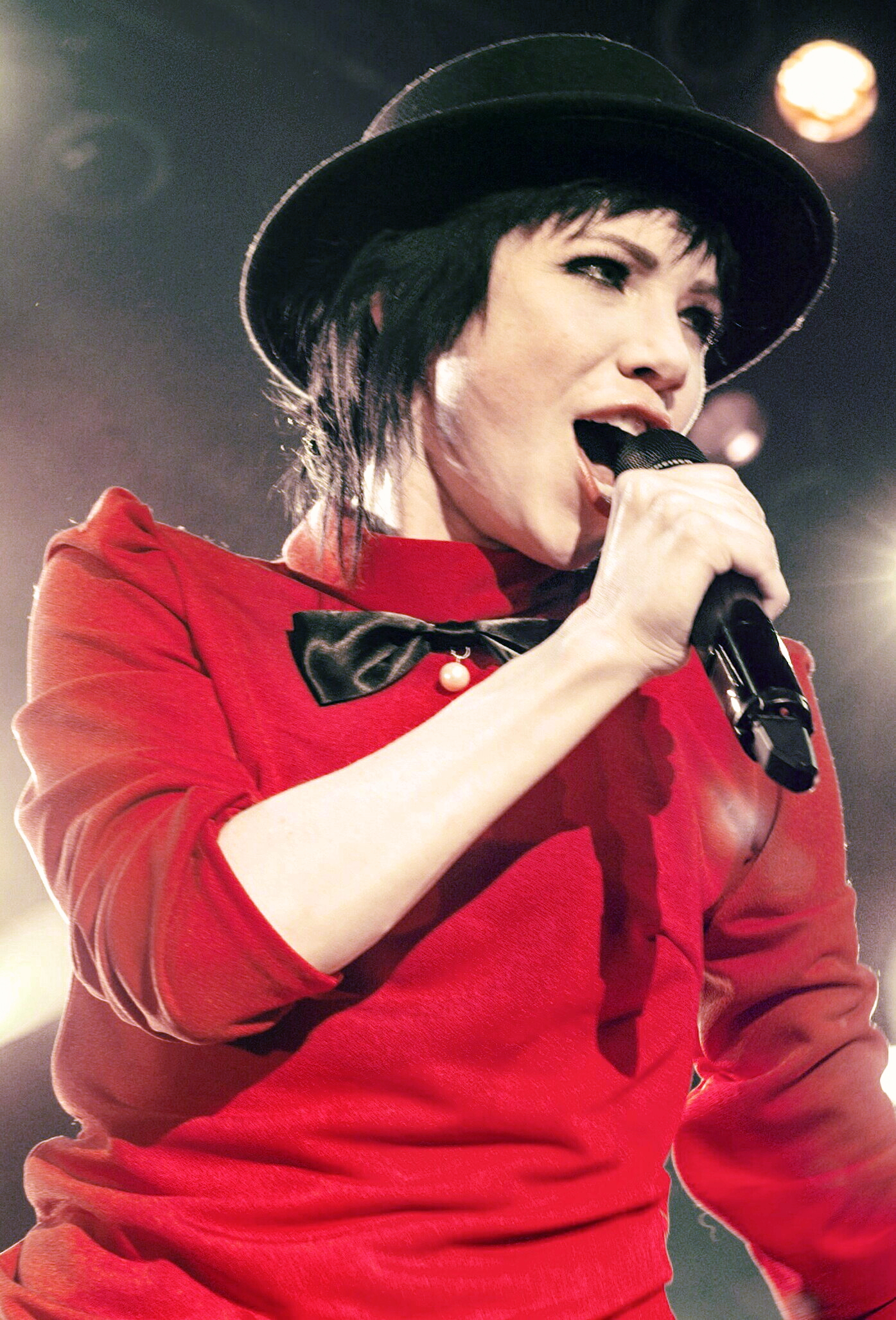 Carly Rae Jepsen performs in Salt Lake City (The Depot) as part of her Gimmie Love Tour